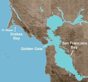 Drakes Bay © 2004 Matthew Trump